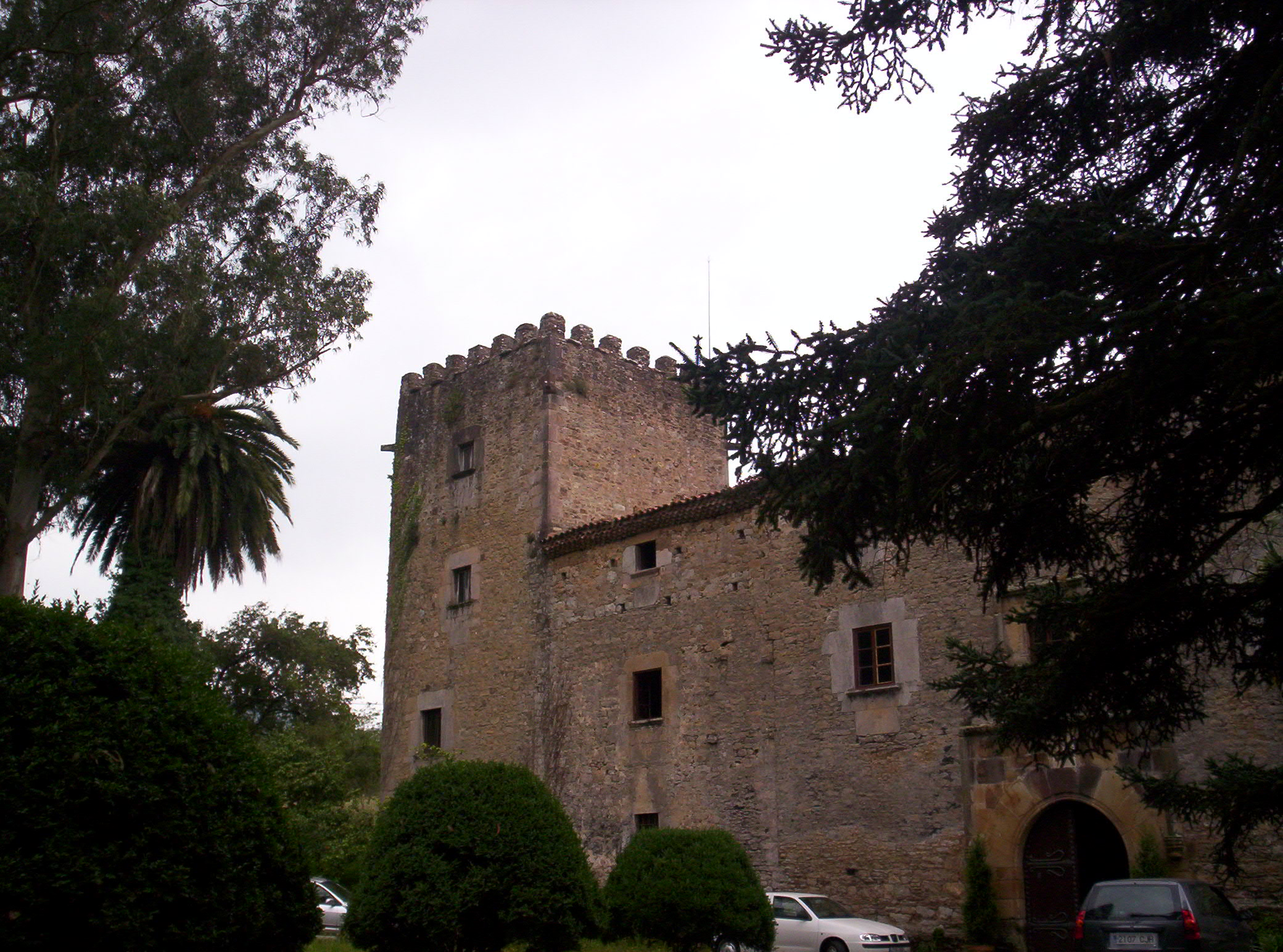 Doriga Tower-Palace in Salas, Asturias